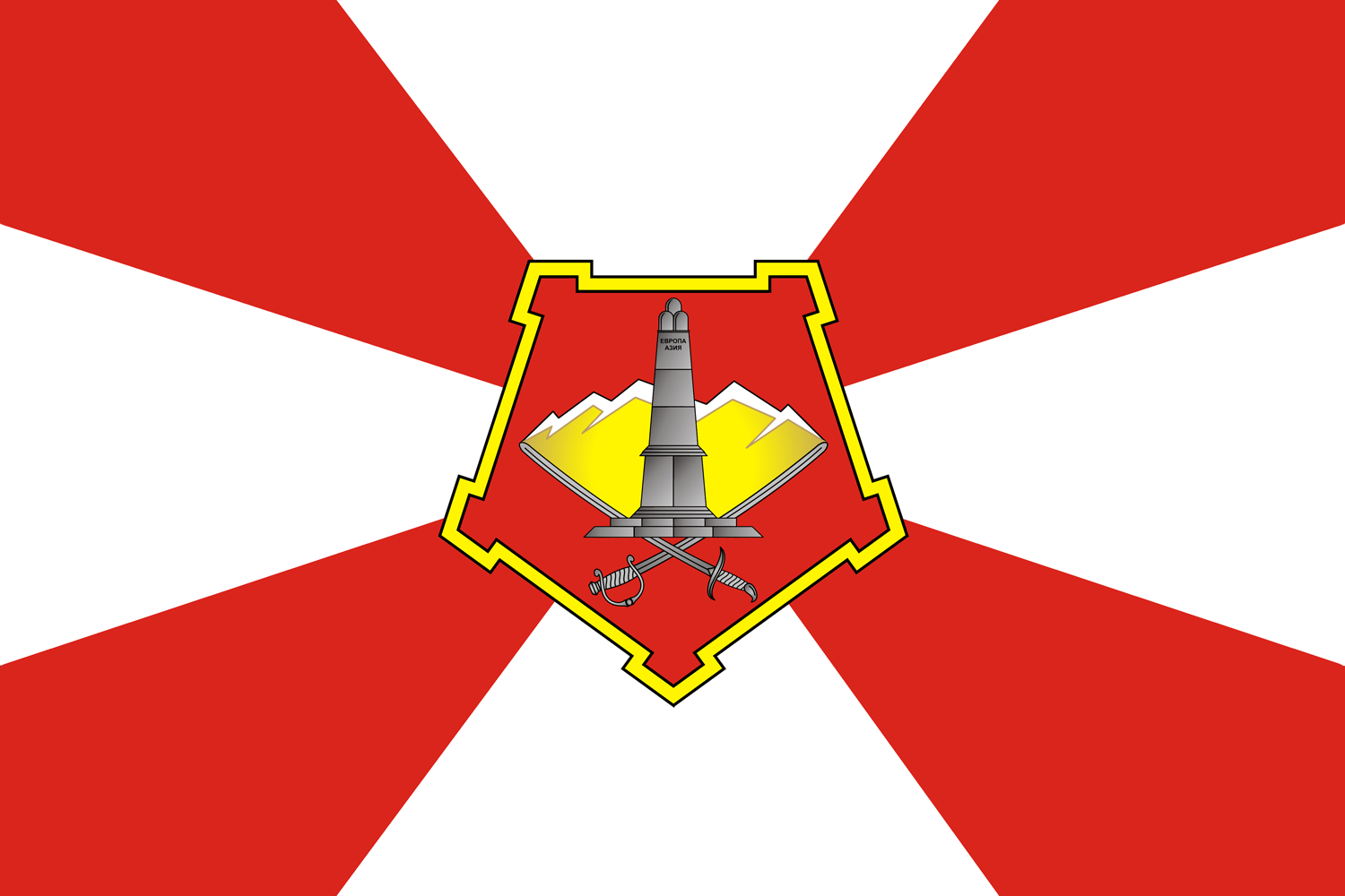 Flag of Central Military District, Russia